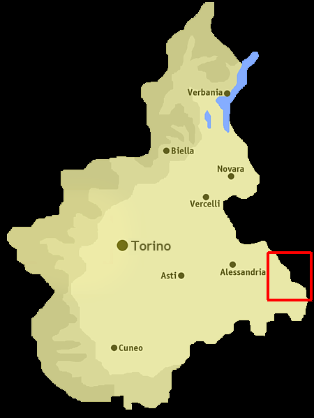 Curone valley position within Piedmont (NW Italy)